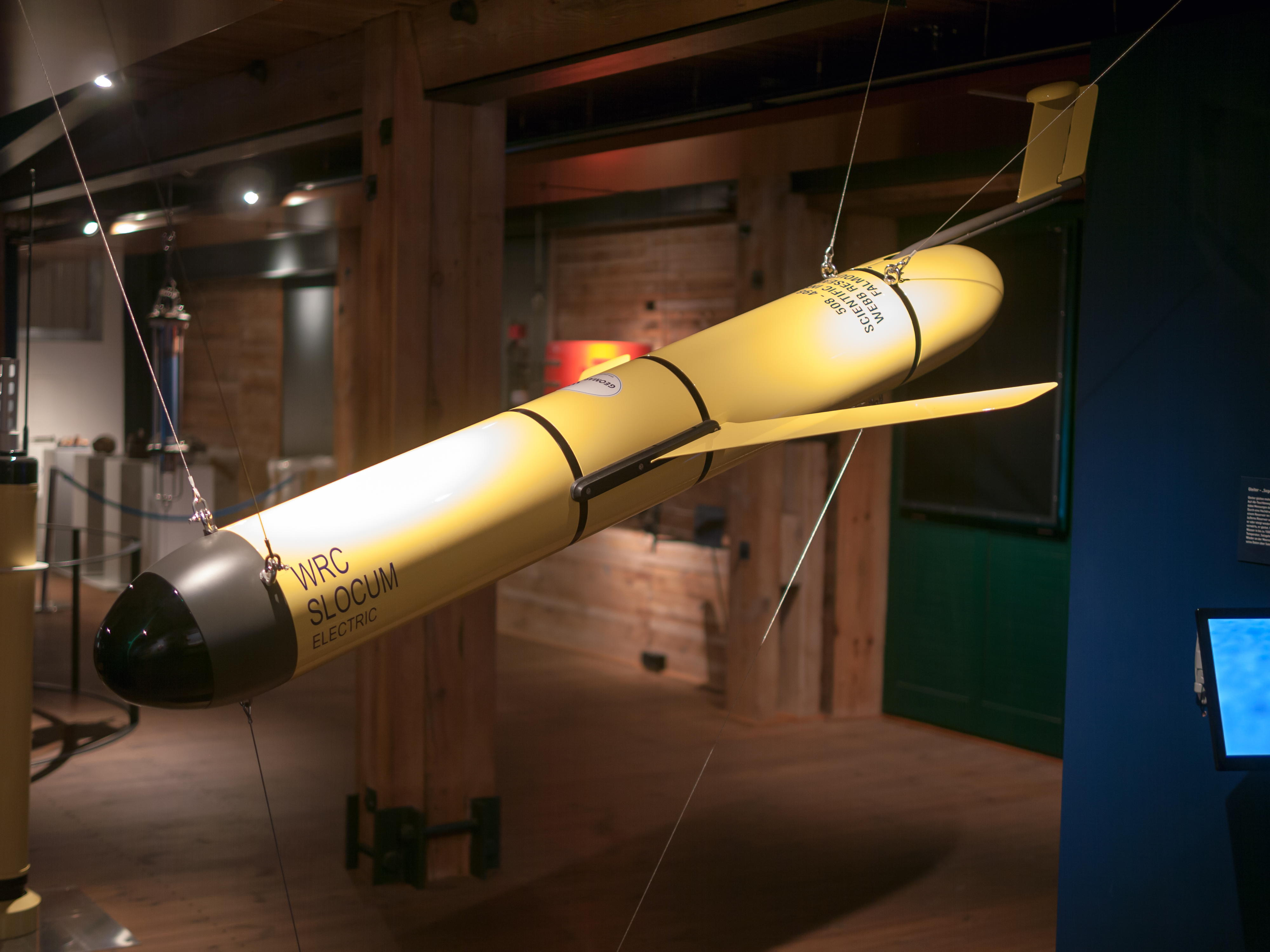 Teledyne underwater glider in the Internationales Maritimes Museum Hamburg